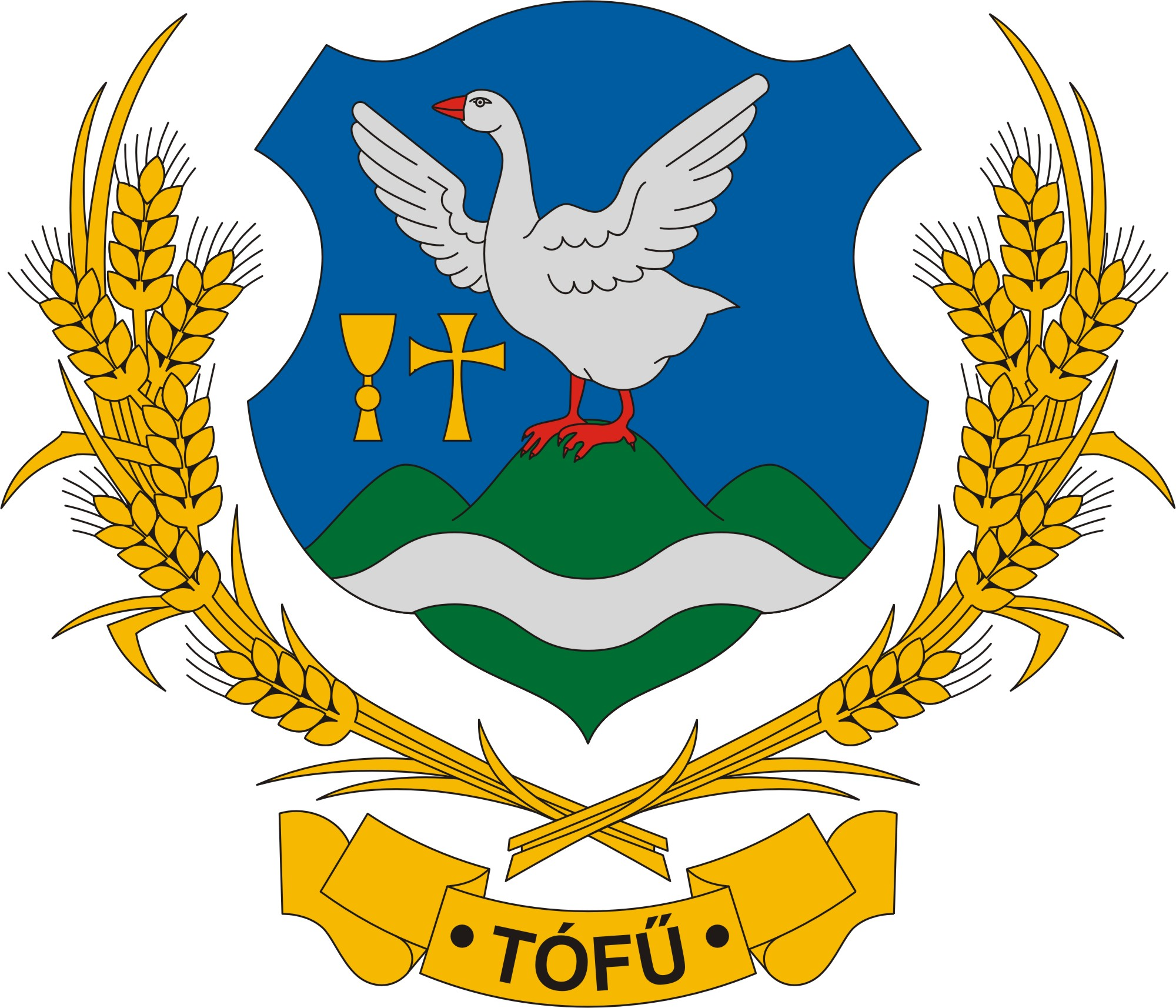 Coat of arms of Tófű, Hungary